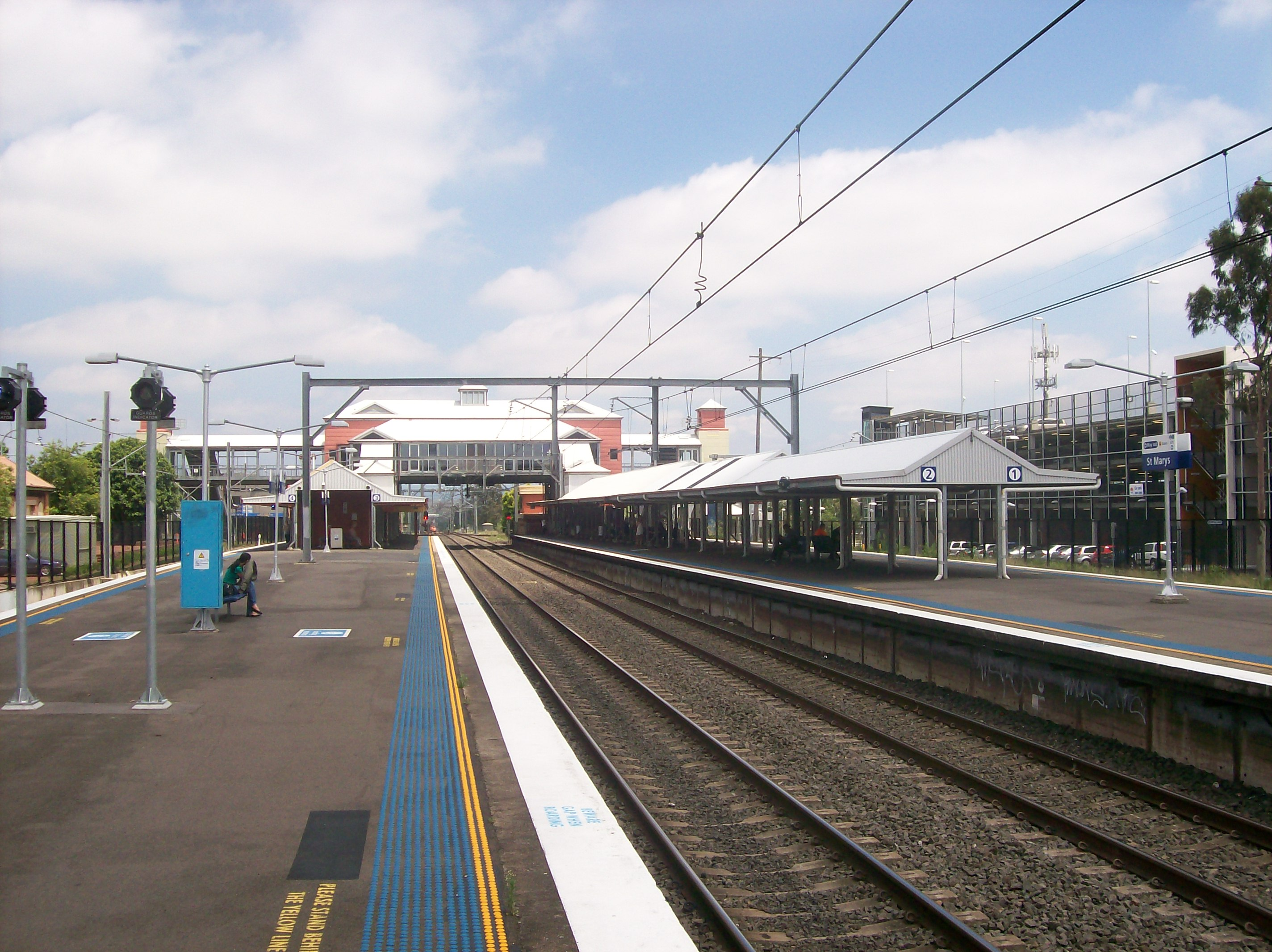 St Marys railway station